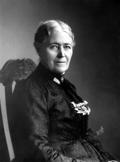 Photograph of the Belgian philanthropist and feminist Léonie de Waha (1836-1926)